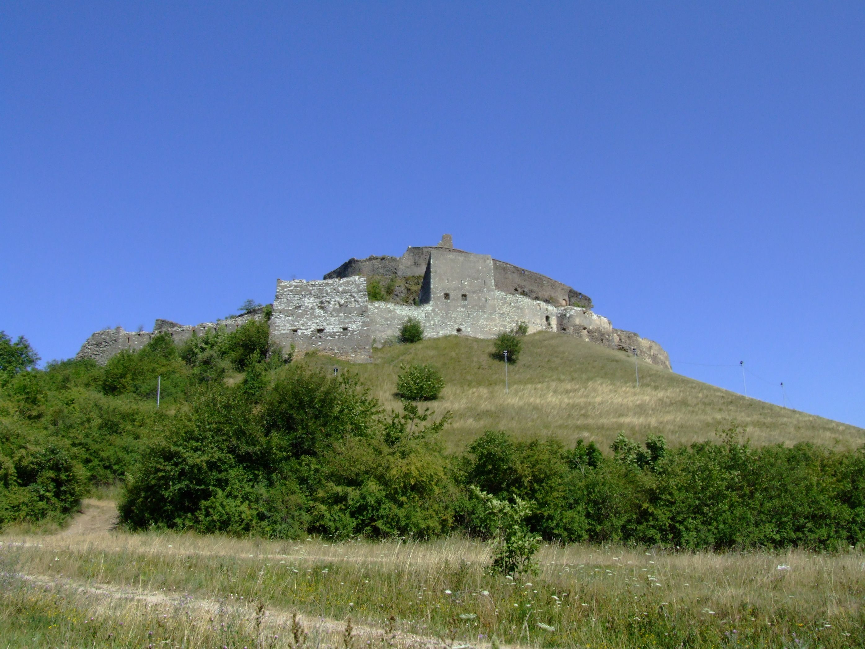 Rupea view of the outer fortification from the outside of the fortification